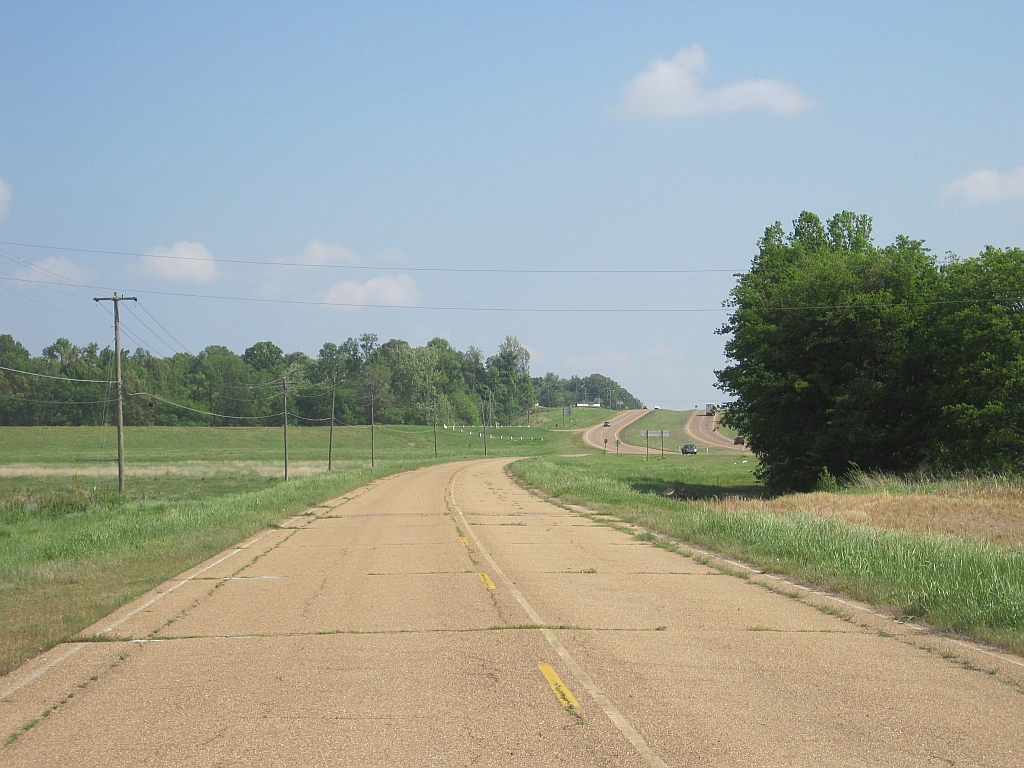 Walls, Mississippi Old Highway 61